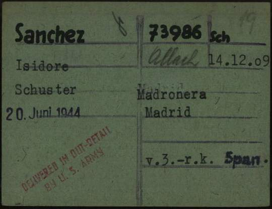 Registration card of Isidro Sánchez as a prisoner at Dachau Nazi Concentration Camp. Red stamp means he was liberated by the U. S. Army from a Dachau sub-camp (out-detail).